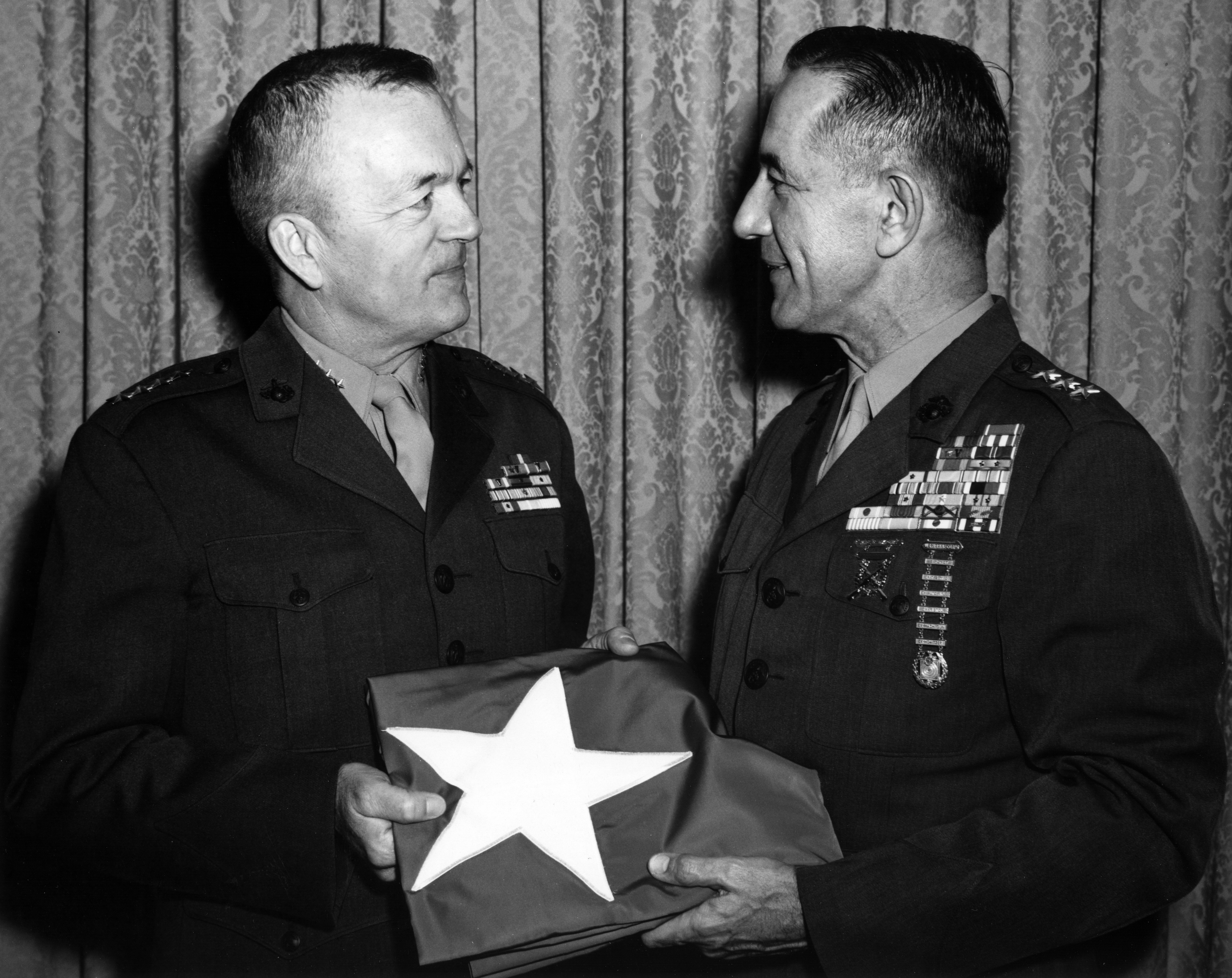 General Leonard F. Chapman Jr., Commandant of the Marine Corps, presents Lieutenant general Herman Nickerson Jr. with his new three-star flag, following ceremonies in which Lieutenant general Nickerson was promoted to his present rank. The ceremonies took place in Office of the Commandant at Headquarters Marine Corps, Washington, D.C.